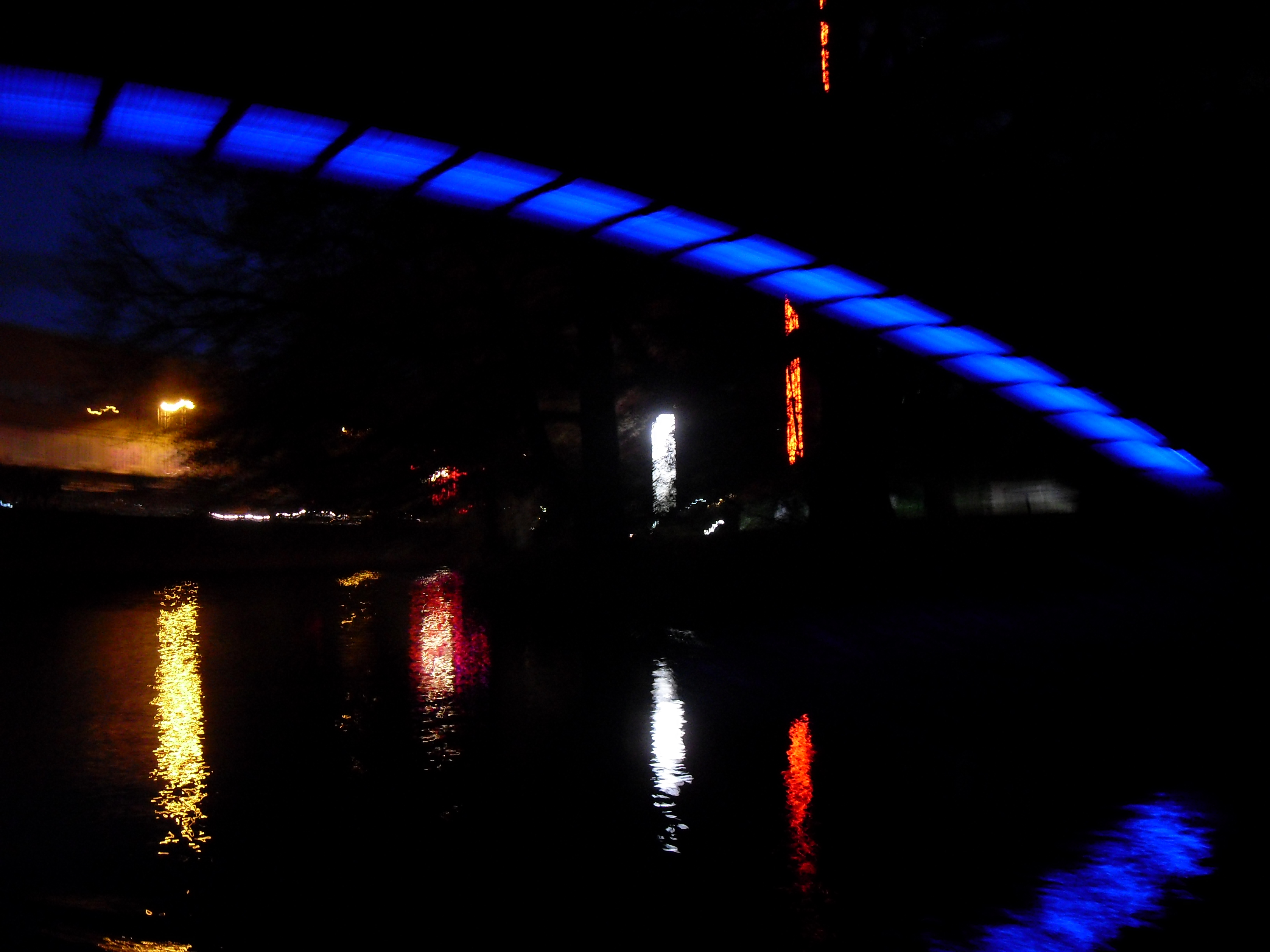 light art in Braunschweig - Lichtparcours 2010